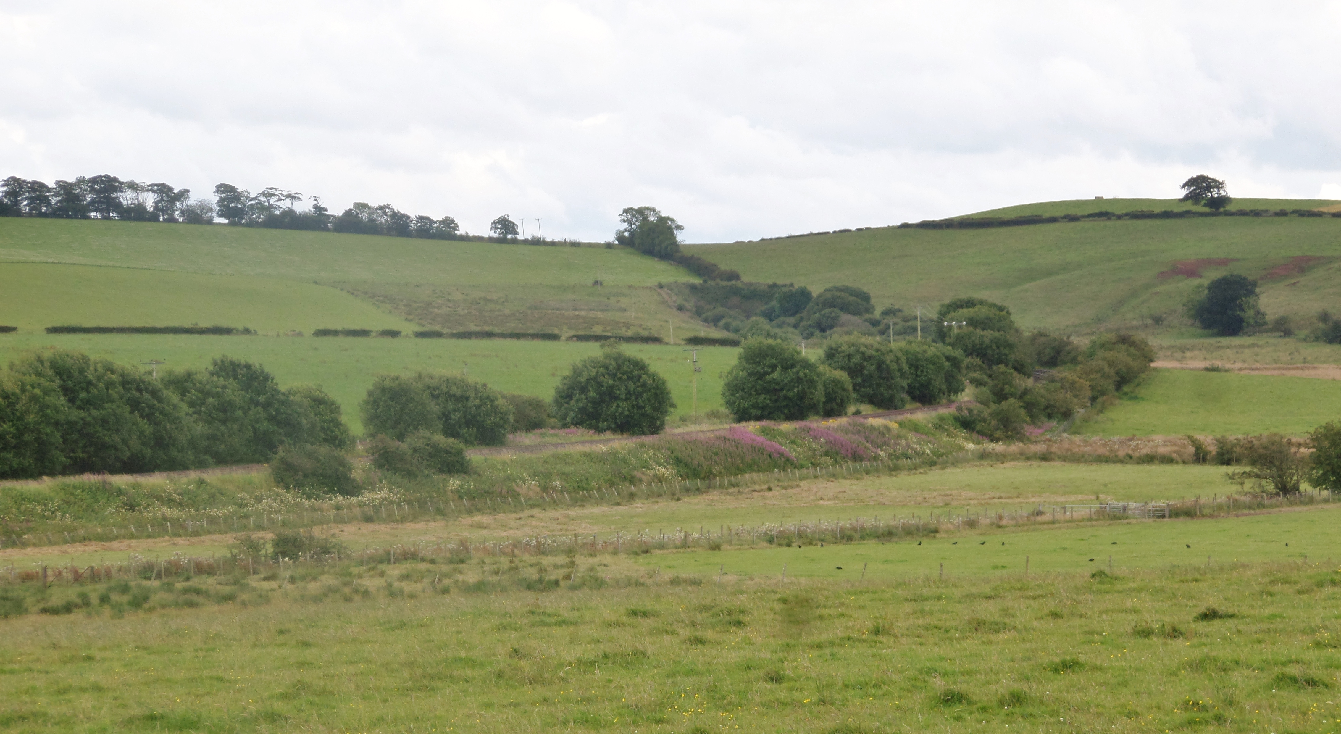 Old Garrochburn Goods Depot & Mossgiel Tunnel portal, Mauchline, East Ayrshire, Scotland. Old G&SWR main line. The line to Mauchline Colliery branched off to the left.